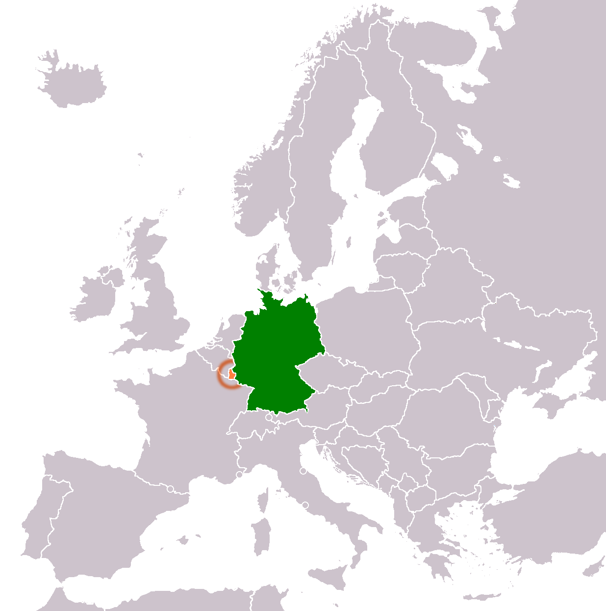 Germany-Luxembourg locator map